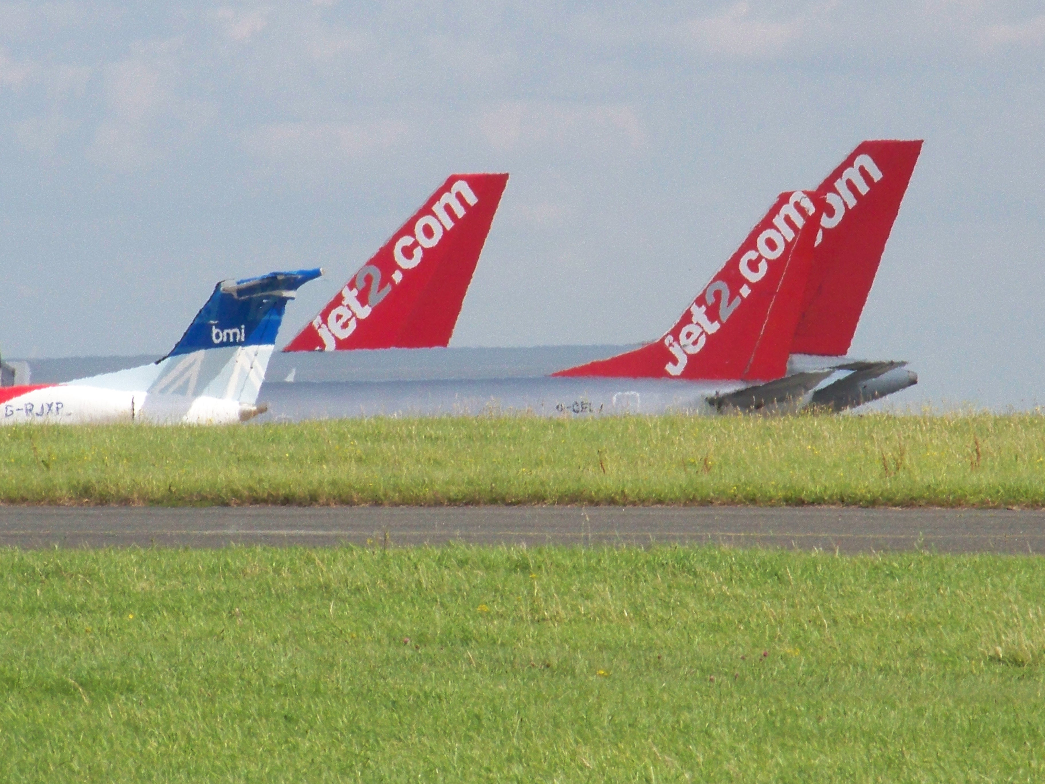 and bmi tailfins on the Apron at Leeds Bradford International Airport. Taken on the afternoon of Saturday 22nd August 2009.